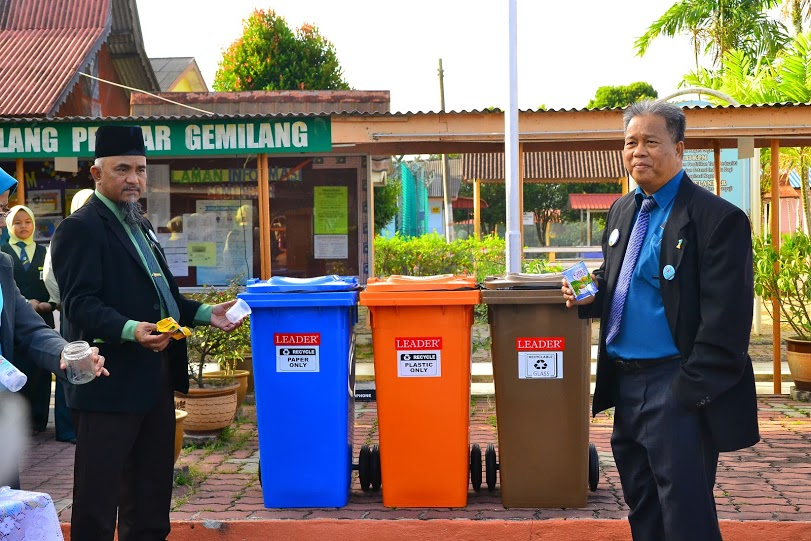 Cekap tenaga 13